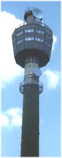 A photo of the antenna and radio test tower of former Telettra company in Vimercate, Italy. After 1990 the tower (and Telettra) become part of Alcatel Italia.